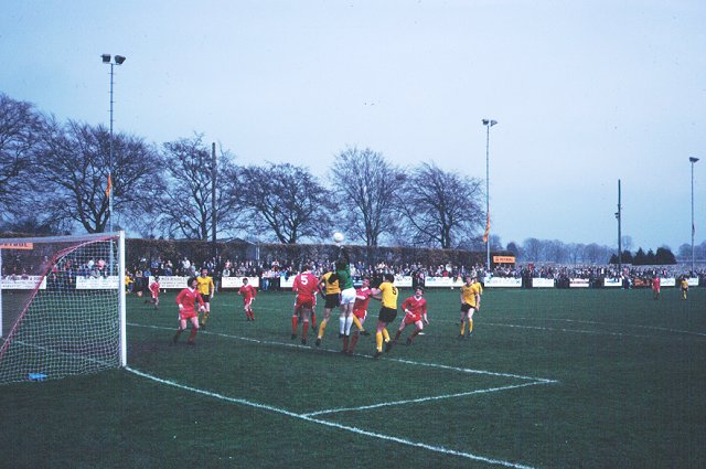 Glebe Park. Home of Brechin City, here winning the 1983 second division with a draw against Ferranti/Meadowbank/Livingston. Glebe Park is the only high level football stadium with a hedge. Its still there.